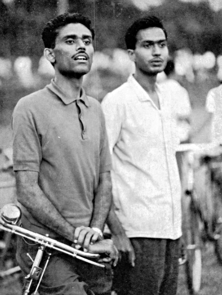 Caption: Mohit Nathan (left), teacher at Dhamtari High School and Vimal Samida (right), teacher at Rudri Polytechnic College. They are both youth leaders. Citation: India, 1898-1967. IV-10-007.2 Box 4 Folder 17. Mennonite Church USA Archives - Goshen. Goshen, Indiana.